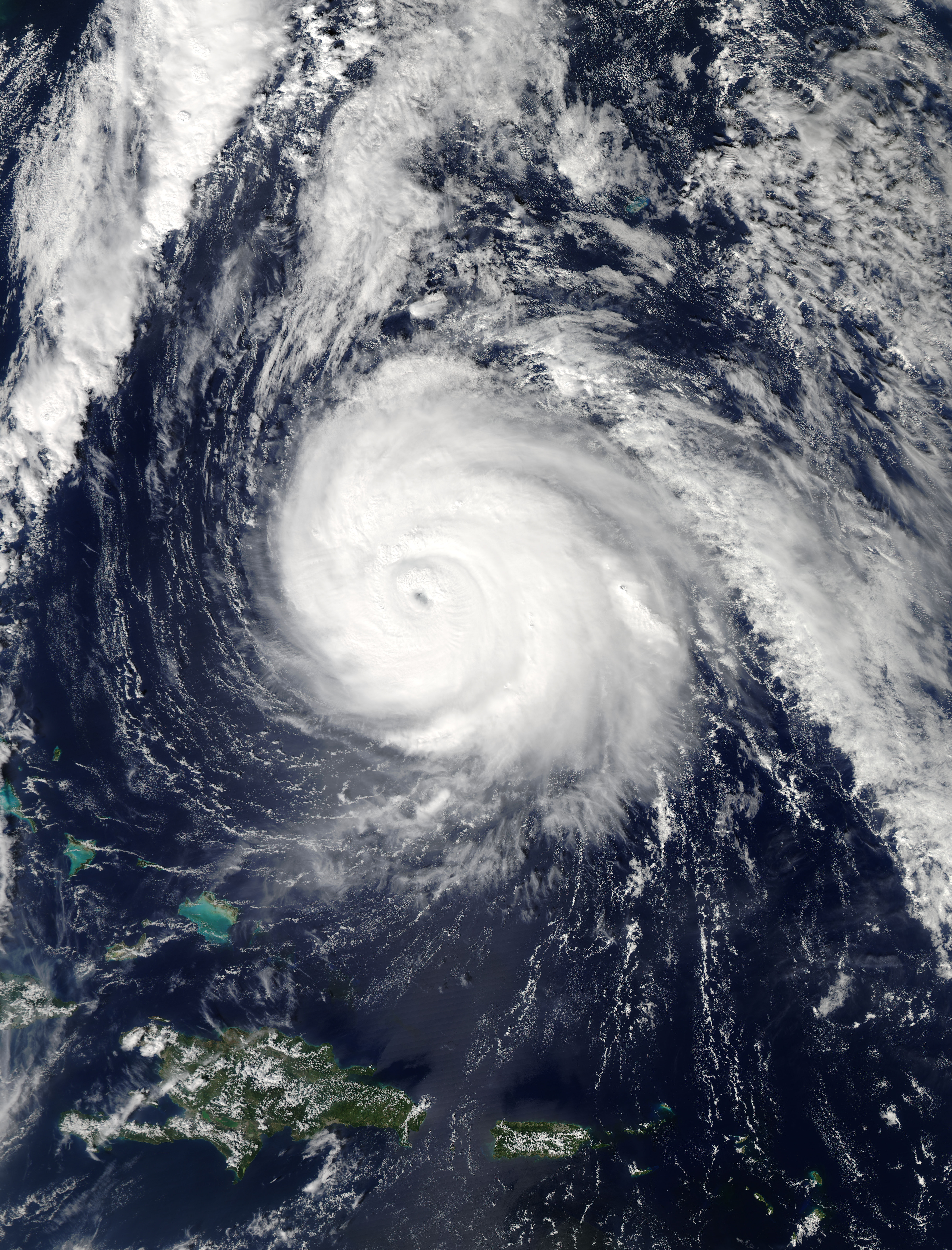 Hurricane Gonzalo (08L) in the Atlantic Ocean